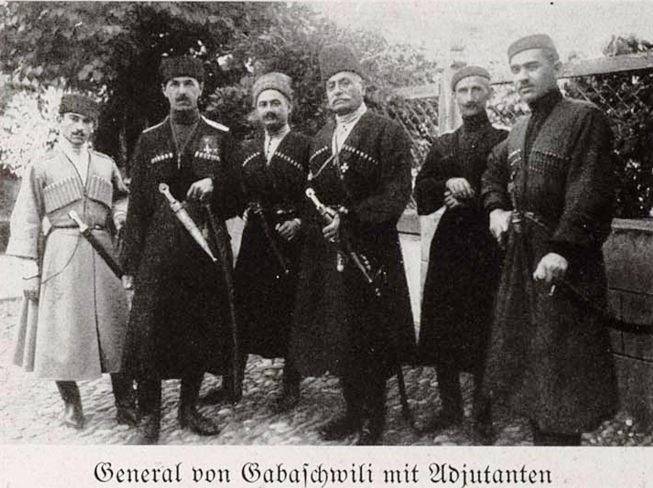 Vasily Gabashvily, commander of Georgian Army, 1918-1921, with adjutants